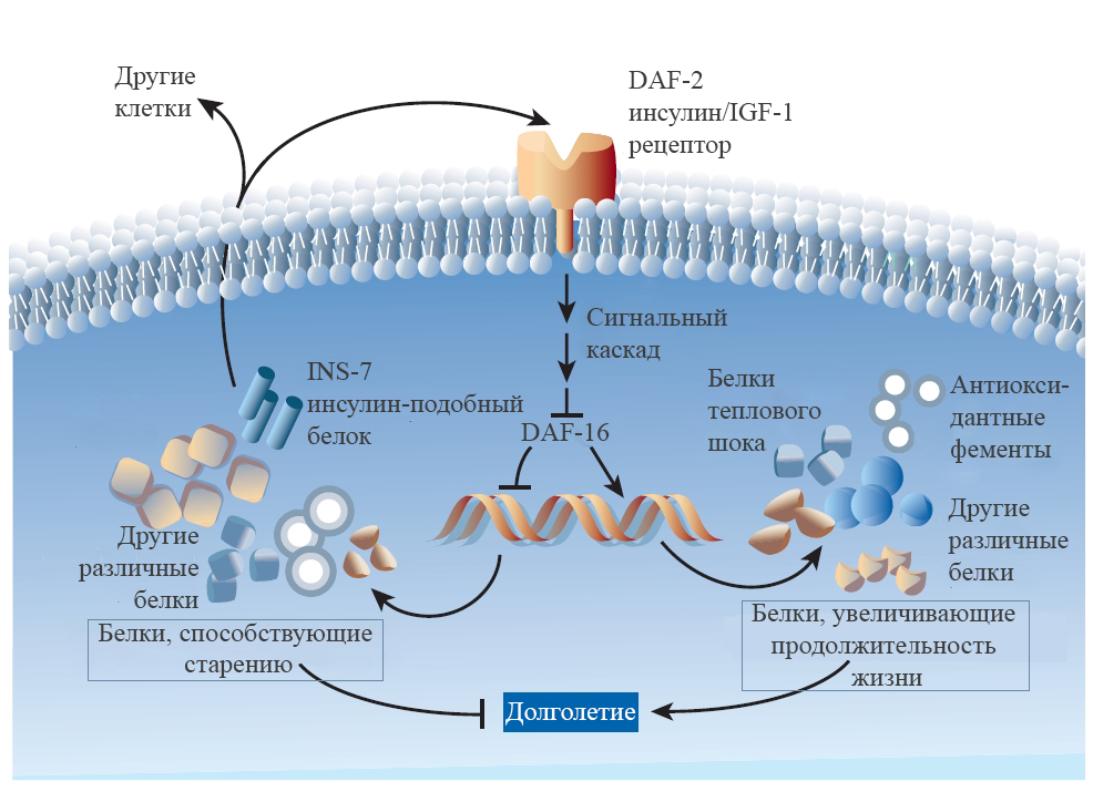 The longevity and the products of daf-genes in C. elegans (translated to Russian from David Gems and Joshua McElwee, 2003).